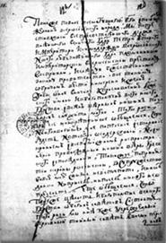 Conditions